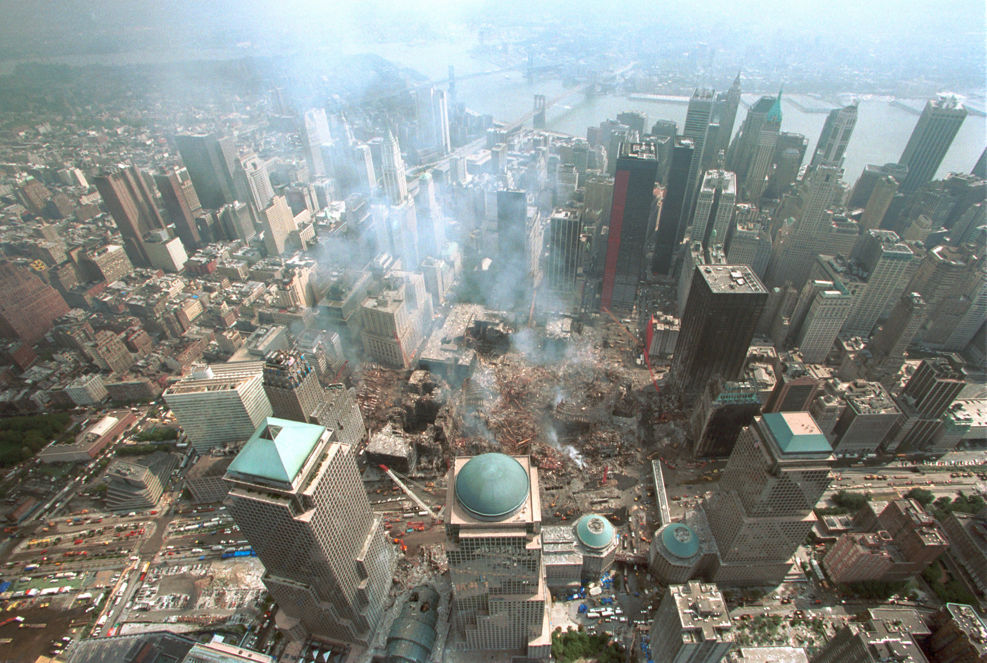 Original description by CBP: "An overhead view of Ground Zero at the WTC in New York."